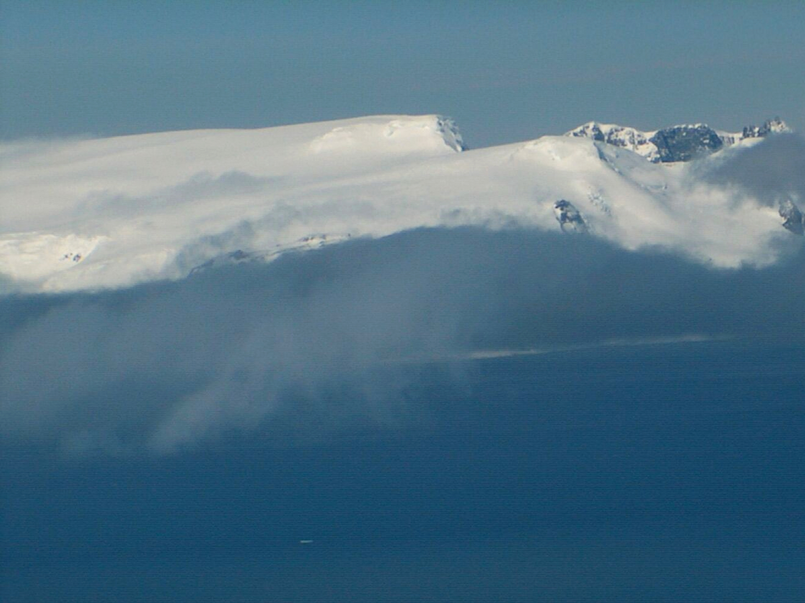 Ilinden Peak, Greenwich Island, Antarctica seen from Miziya Peak, Livingston Island